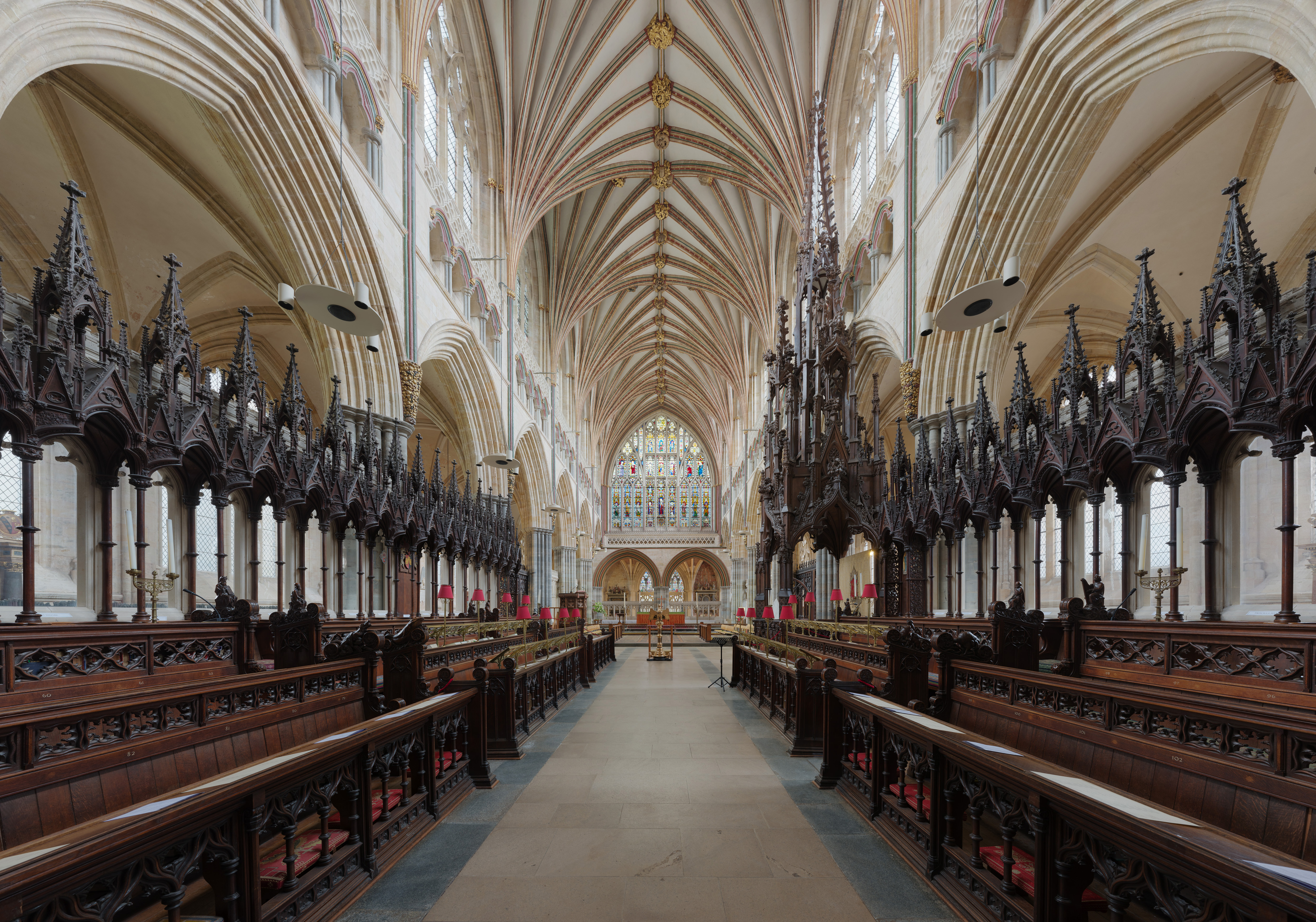 The quire of Exeter Cathedral looking east toward the Lady Chapel